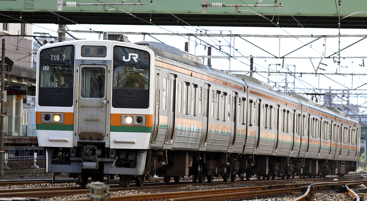 JNR 211-0 series EMU, belongs to the JR Central.